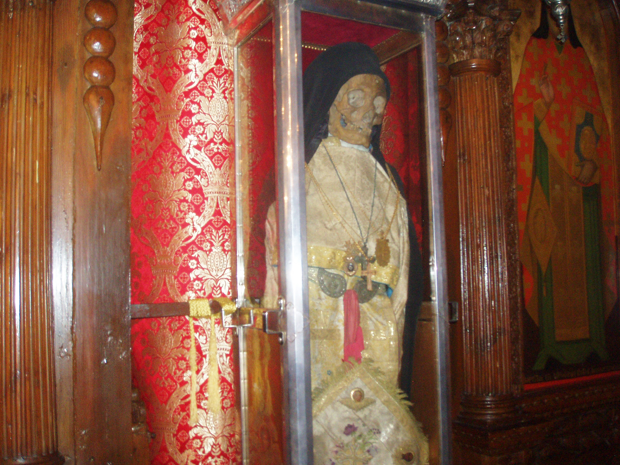 Relic of Saint Joseph - Samakos in Gaitani village (Zakinthos, Greece)